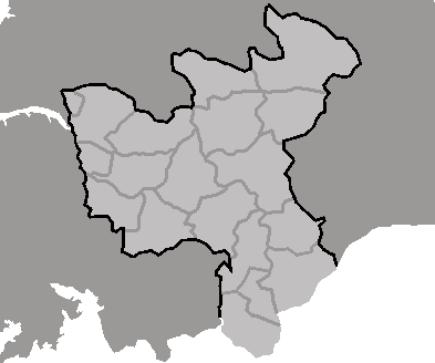 Map of Hwanghae-bukdo, DPRK, 2006